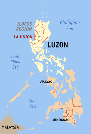 Map of the Philippines showing the location of La Union